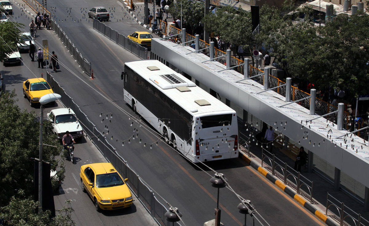 BRT line - Mashhad